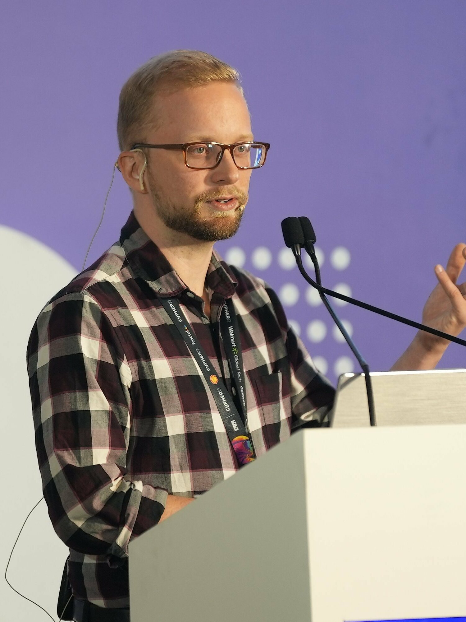 Jacy Reese lecture at University of Oslo in October 2018